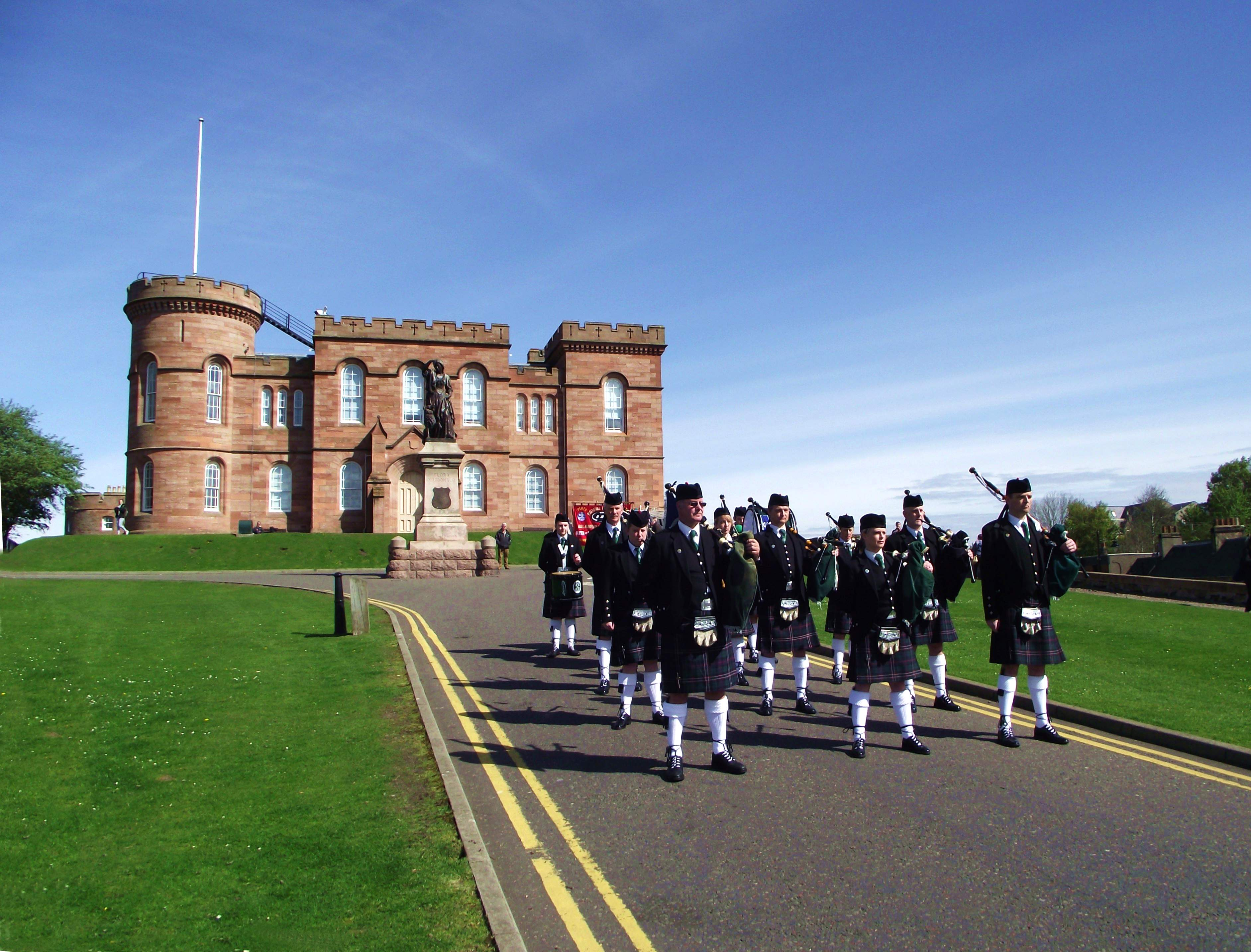 The band formed up waiting for the parade to come in behind, as the sun shines on the bonniest building in Inverness! Some photos of the Northern Constabulary Community Pipe Band at the Parade from Inverness Castle to Falcon Sqaure on Saturday 3rd May 2014.